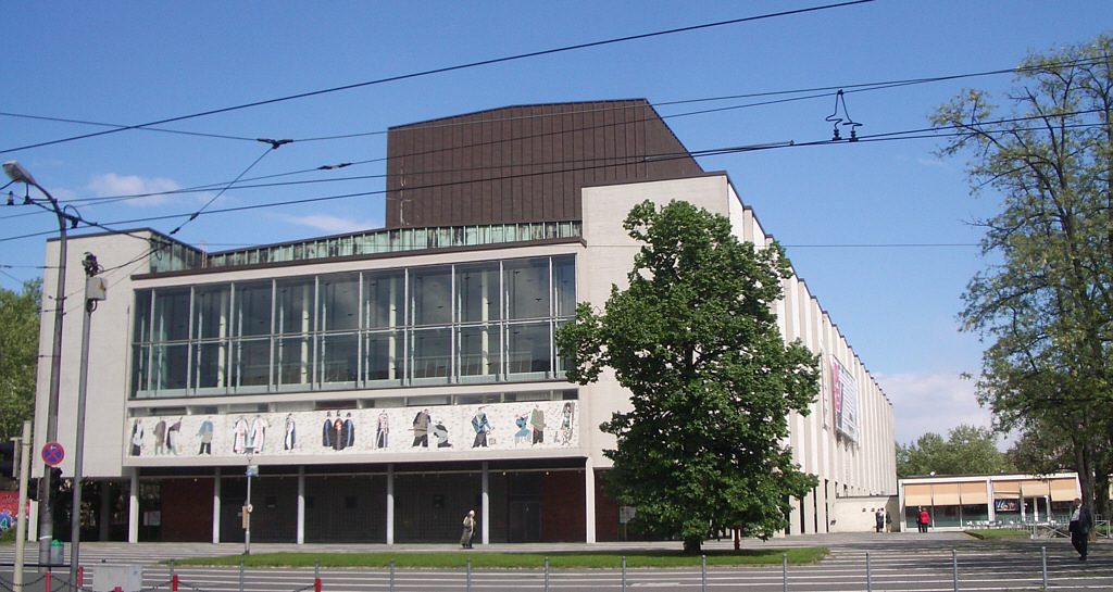 Mannheim, Germany: Nationaltheater, façade